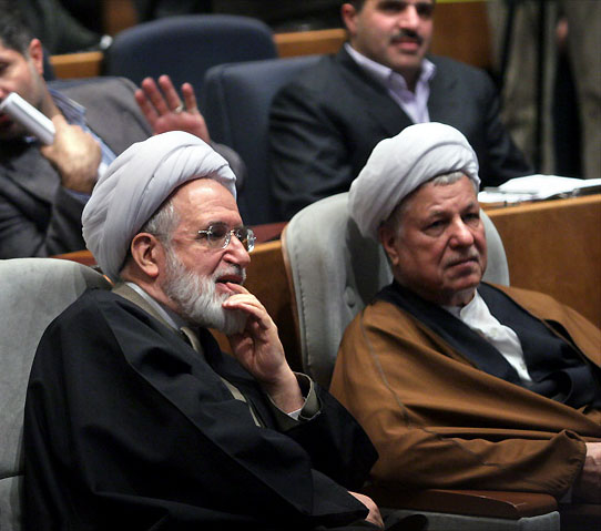 Mehdi Karroubi and Akbar Hashemi Rafsanjani.